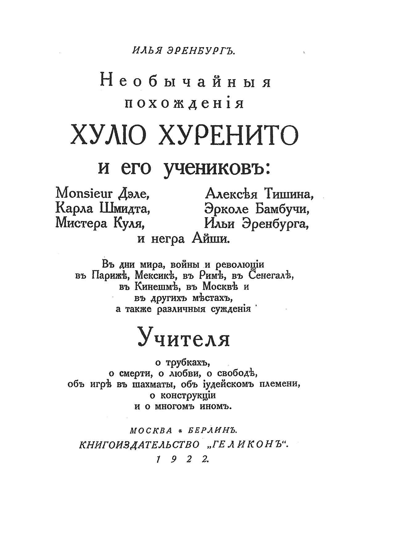 Title Page of first edition of Julio jurenito